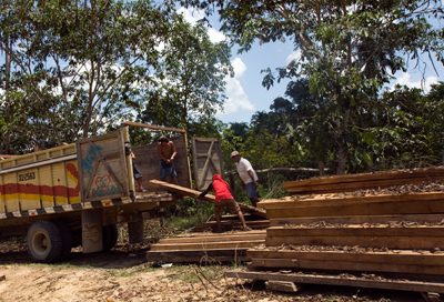 Wood from rainforest, Region Madre de Dios, Peru.